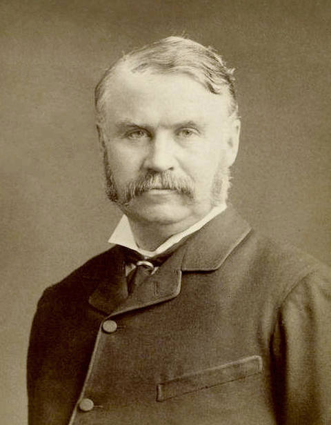 Photograph of W. S. Gilbert from the collection of the New York Public Library Digital Gallery